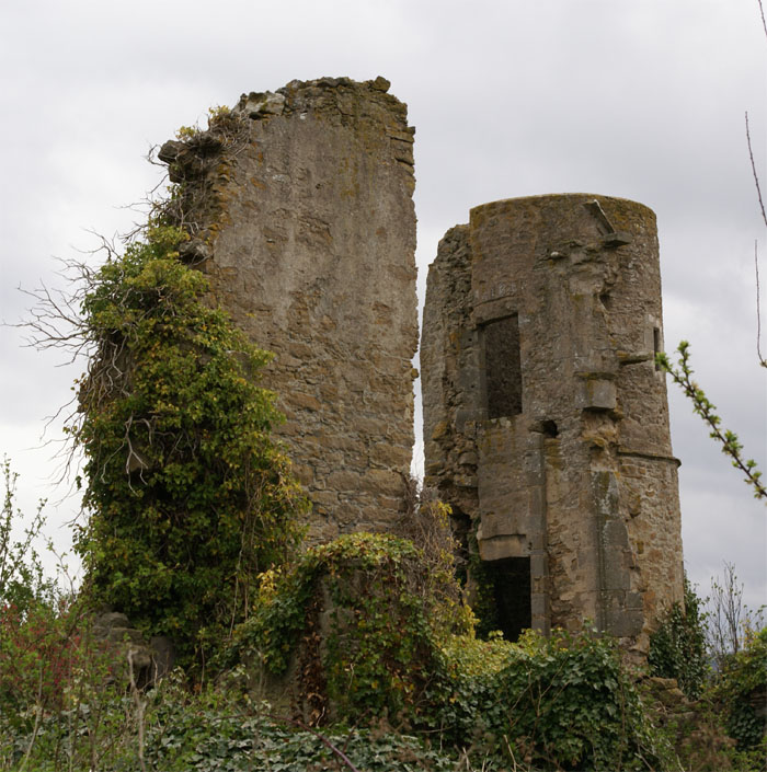 Kinloss Abbey (Scotland) - Abbots Hall